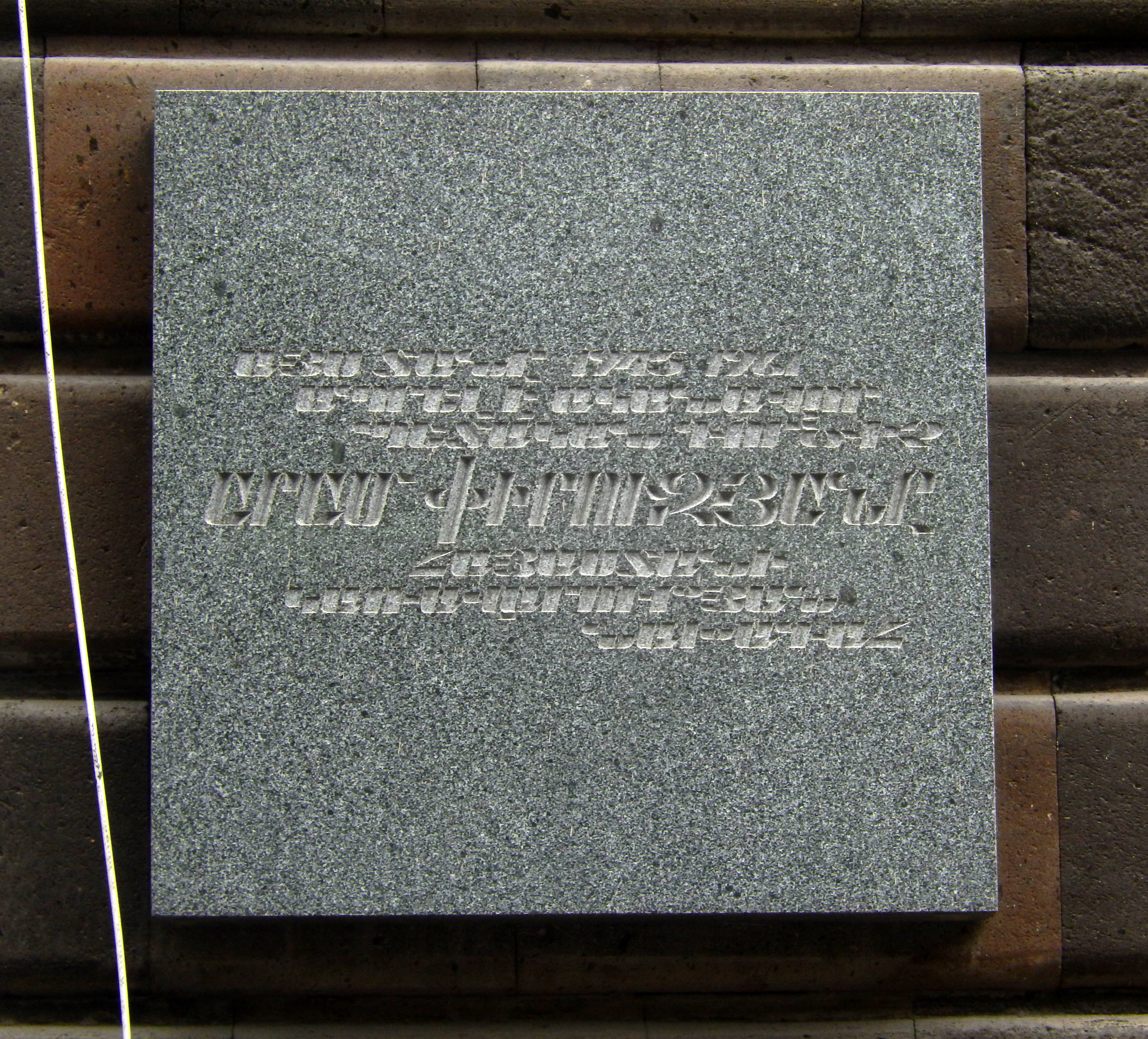 Aram Piruzyan's plaque in Yerevan on Moskovyan street